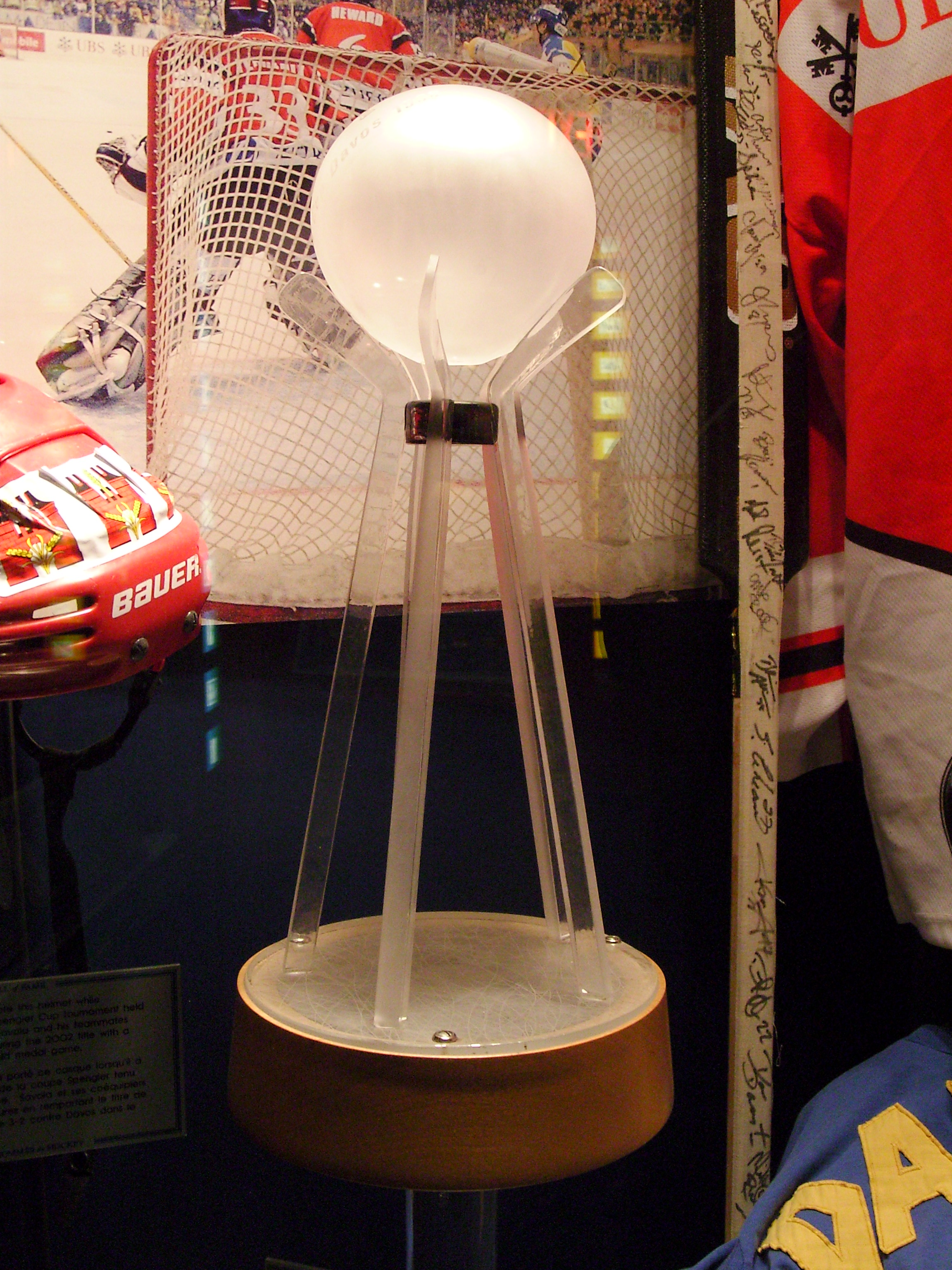 1988 Spengler Cup, on display in the Hockey Hall of Fame in Toronto.